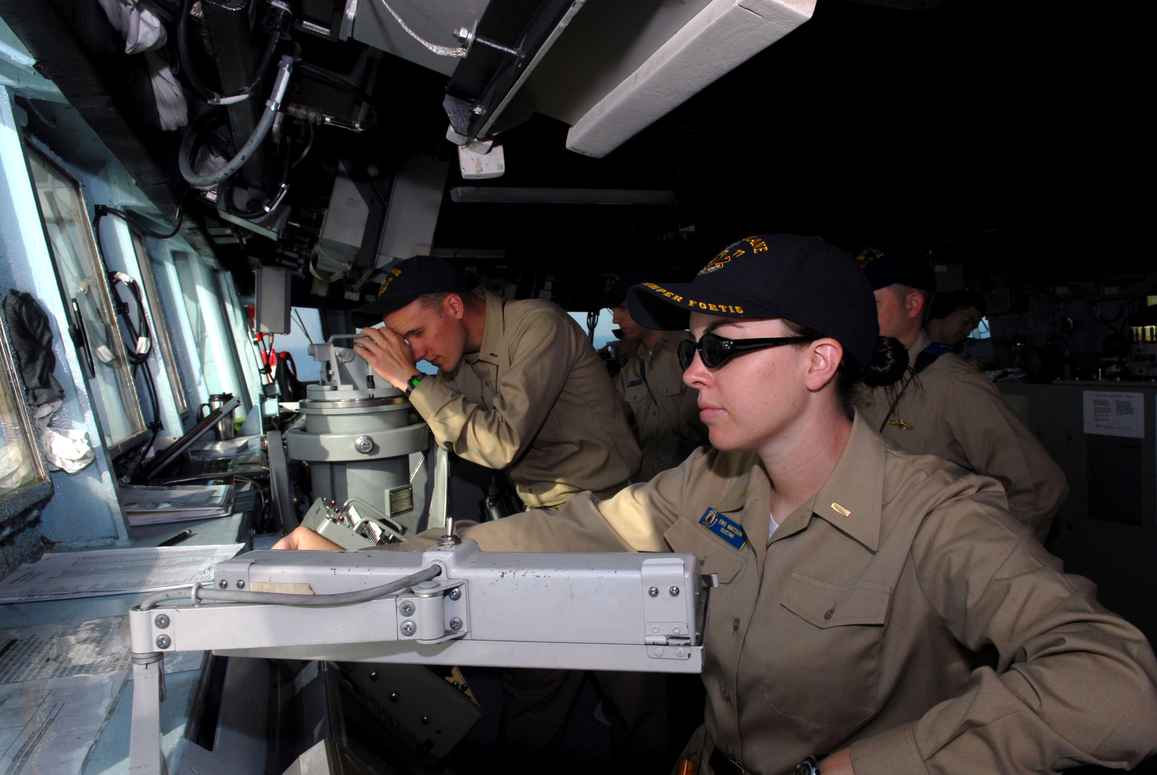 PERSIAN GULF (May 12, 2007) - Ensign Sarah Watson stands conning officer watch on the bridge of the Arleigh Burke-class destroyer USS O'Kane (DDG 77). Conning officers provide course and speed changes for seaward navigation while the ship is underway. O'Kane is part of the John C. Stennis Carrier Strike Group on a regularly scheduled deployment in support of Maritime Security Operations (MSO). MSO help set the conditions for security and stability, as well as aid counter-terrorism and security efforts to the regional nations. U.S. Navy photo by Mass Communication Specialist 2nd Class Joseph R. Vincent (RELEASED)